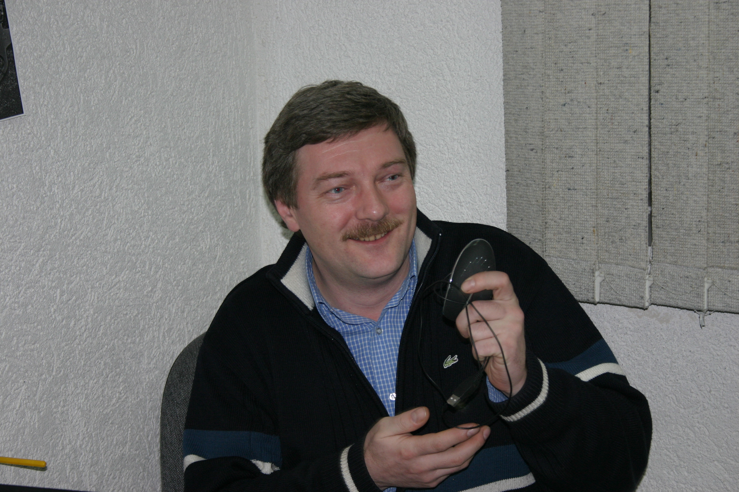 a photo of Sergey Leonov, editor-in-chief of Computerra weekly (2004-2006)